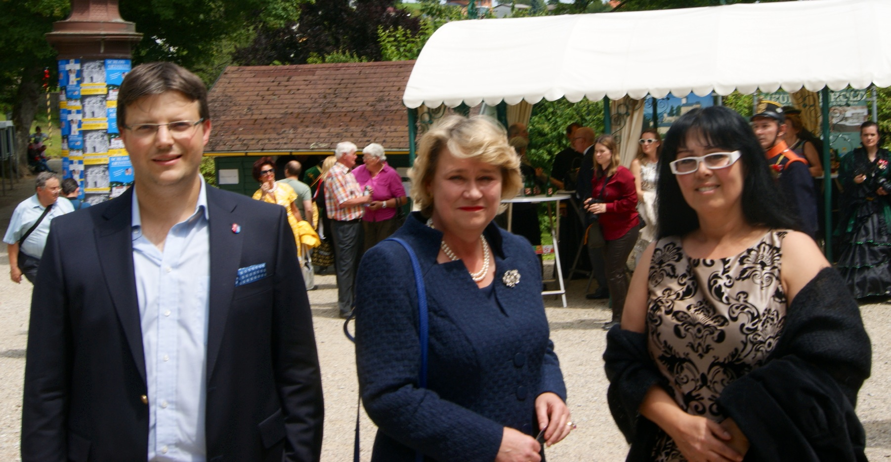 "100 years Assassination of Archduke Franz Ferdinand of Austria and his wife Duchess Sophie of Hohenberg" in Sarajewo" at Artstetten. Personlaly invitation by Princess Anita Hohenberg (middle). Graeff chairman Matthias Laurenz Gräff and Georgia Kazantzidu